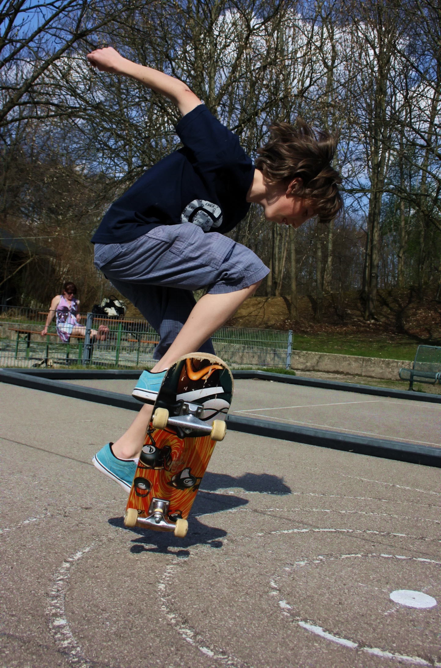 Skateboard driver